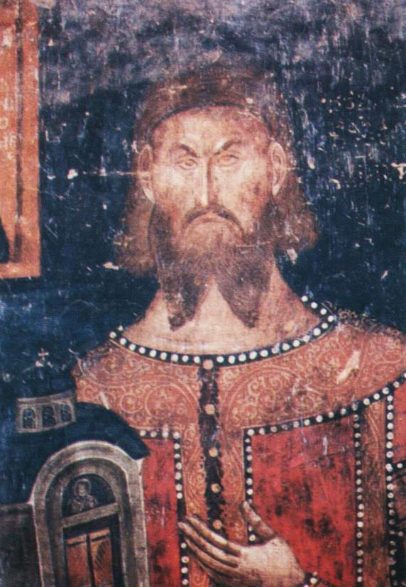 Fresco of Vlatko Paskačić in the Church of St. Nicholas of the Psača Monastery.